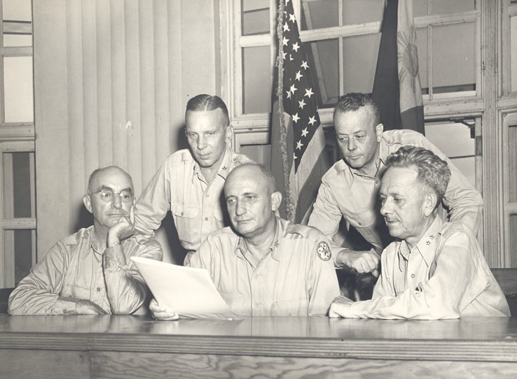 This is a photograph of the Commission of five US Generals that tried Japanese General Tomoyuki Yamashita for war crimes in 1945: Gen. Handwerk, Gen. Bullens, Gen. Donovan, Gen. Reynolds, Gen. Lester.